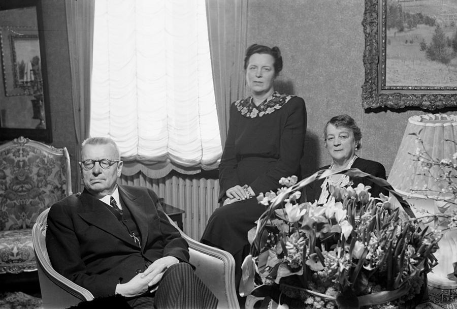 The new president with his daughter, architect Annikki Paasikivi, and wife Alli.